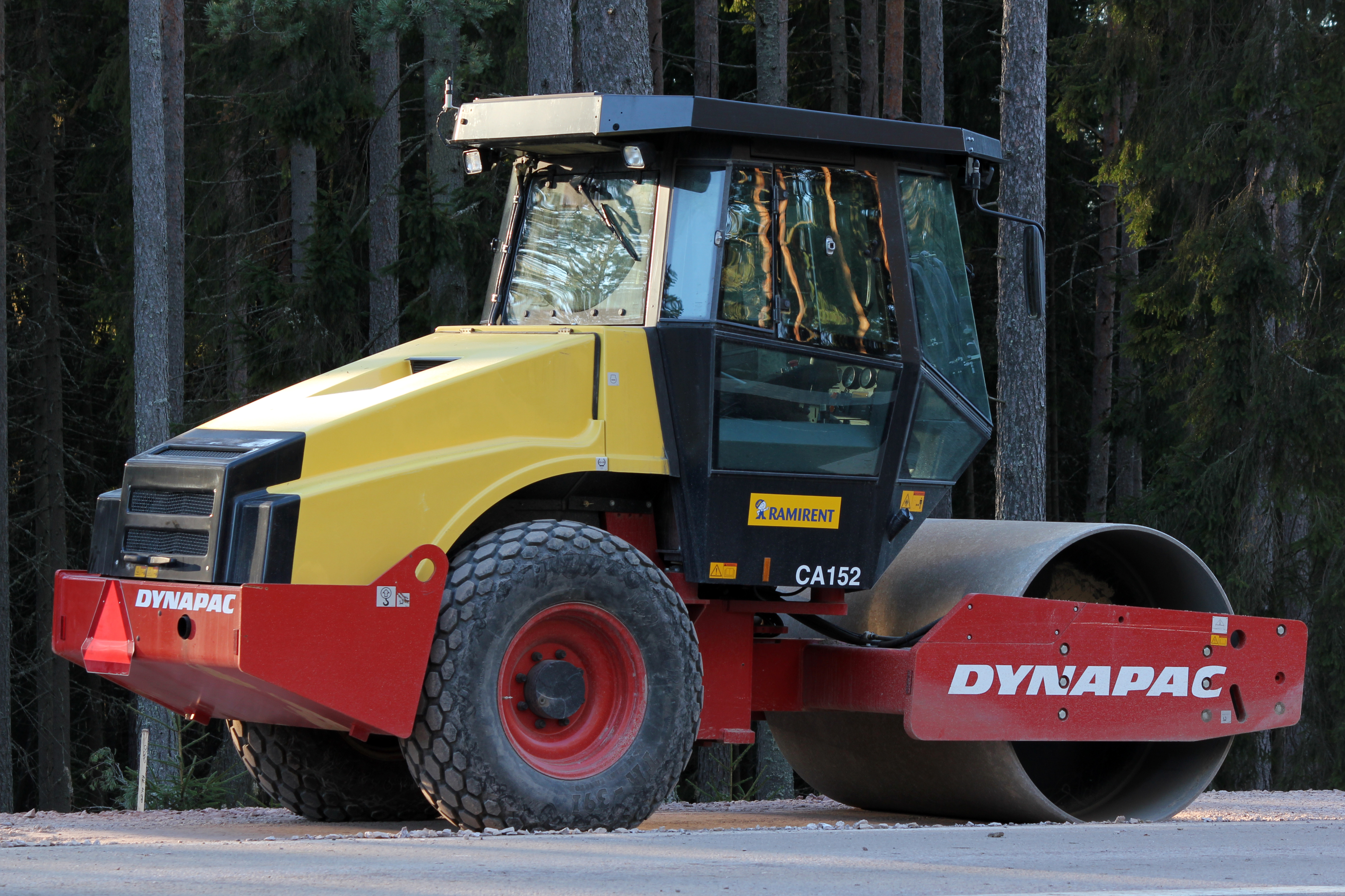 Road roller Dynapac CA 152 at Riksväg 70 (National road 70) near Bondbo, Sweden.